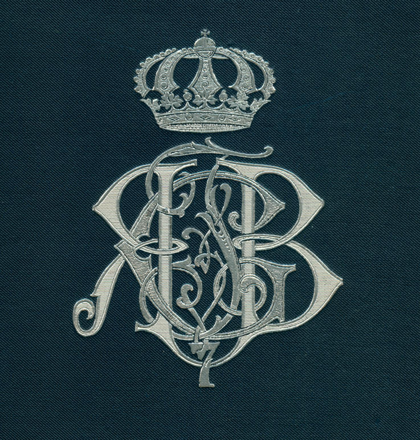 Insignia of the Prussian Lancers Regiment Nr. 7 - Grand Duke of Baden (Rhenish) Nr. 7